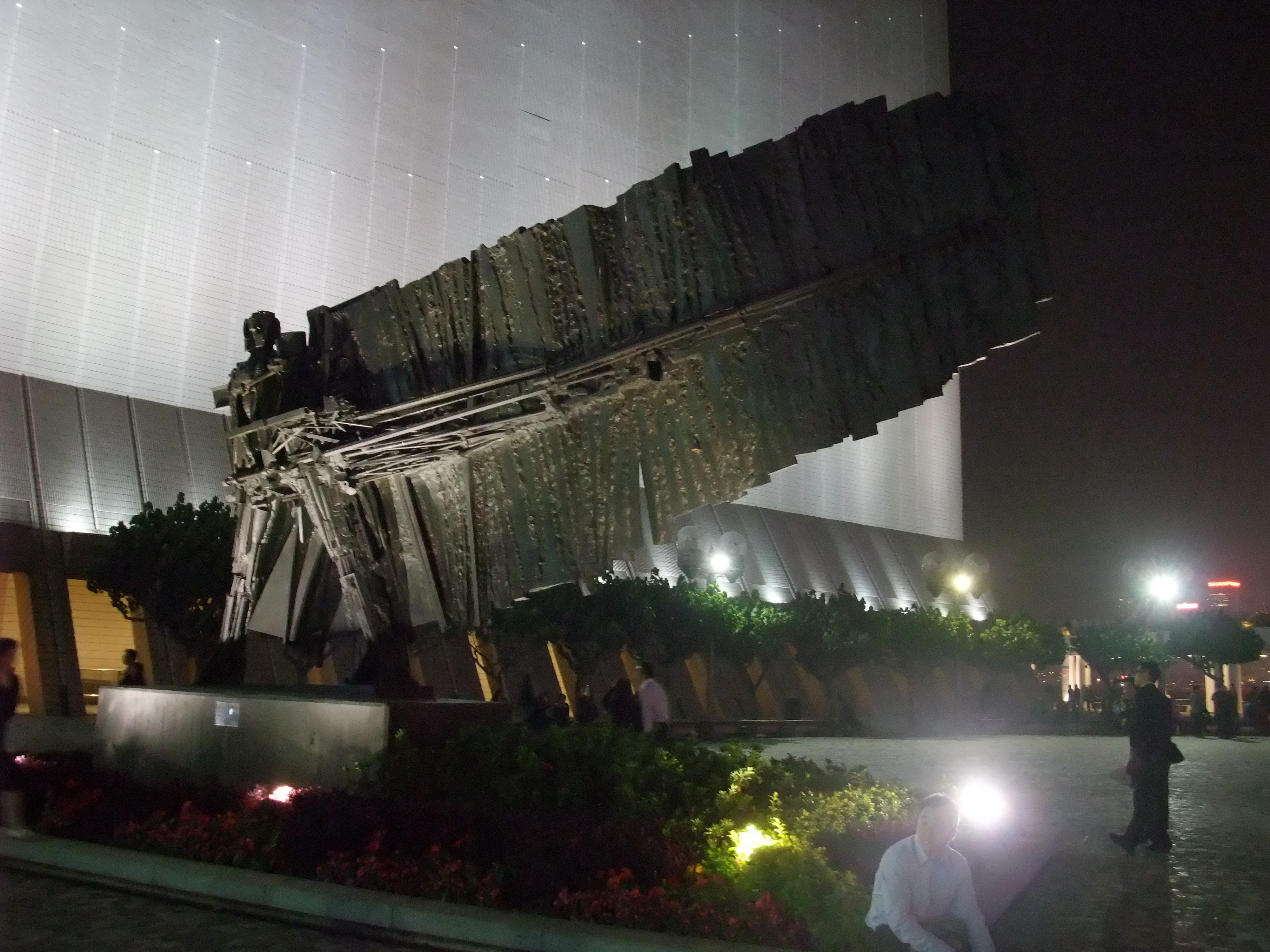 Photo of the Flying Frenchman by César Baldaccini